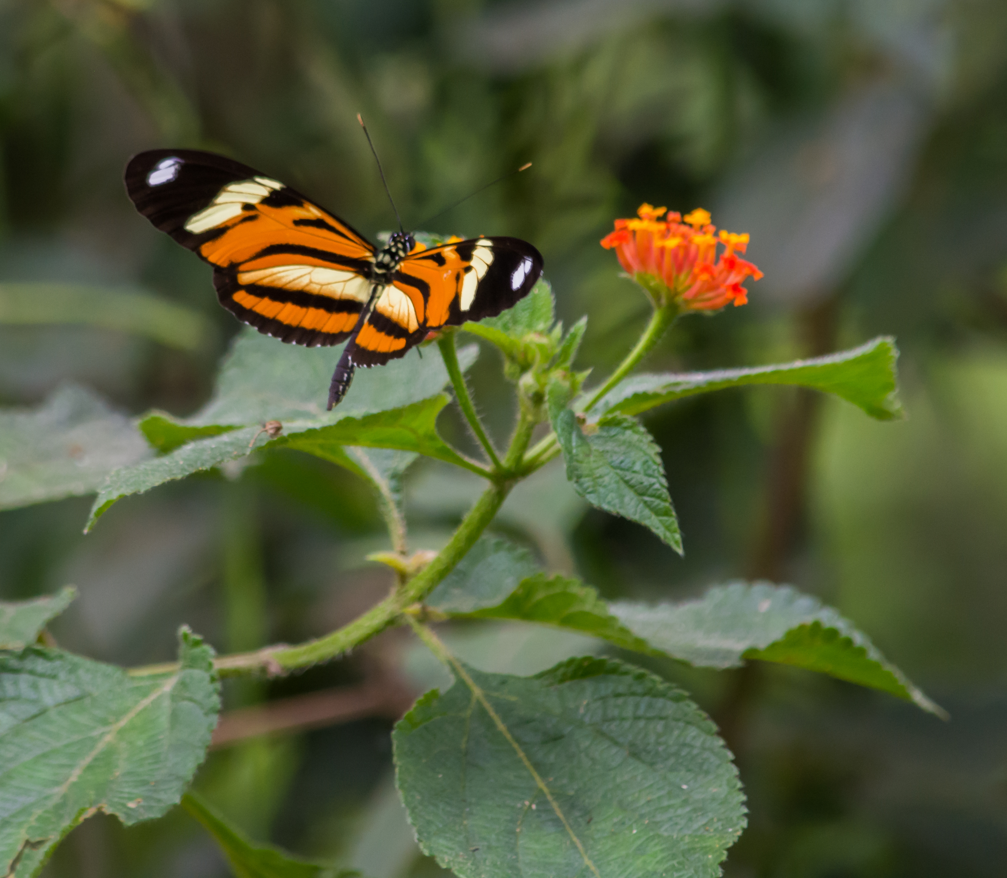 Heliconius ethilla narçaea